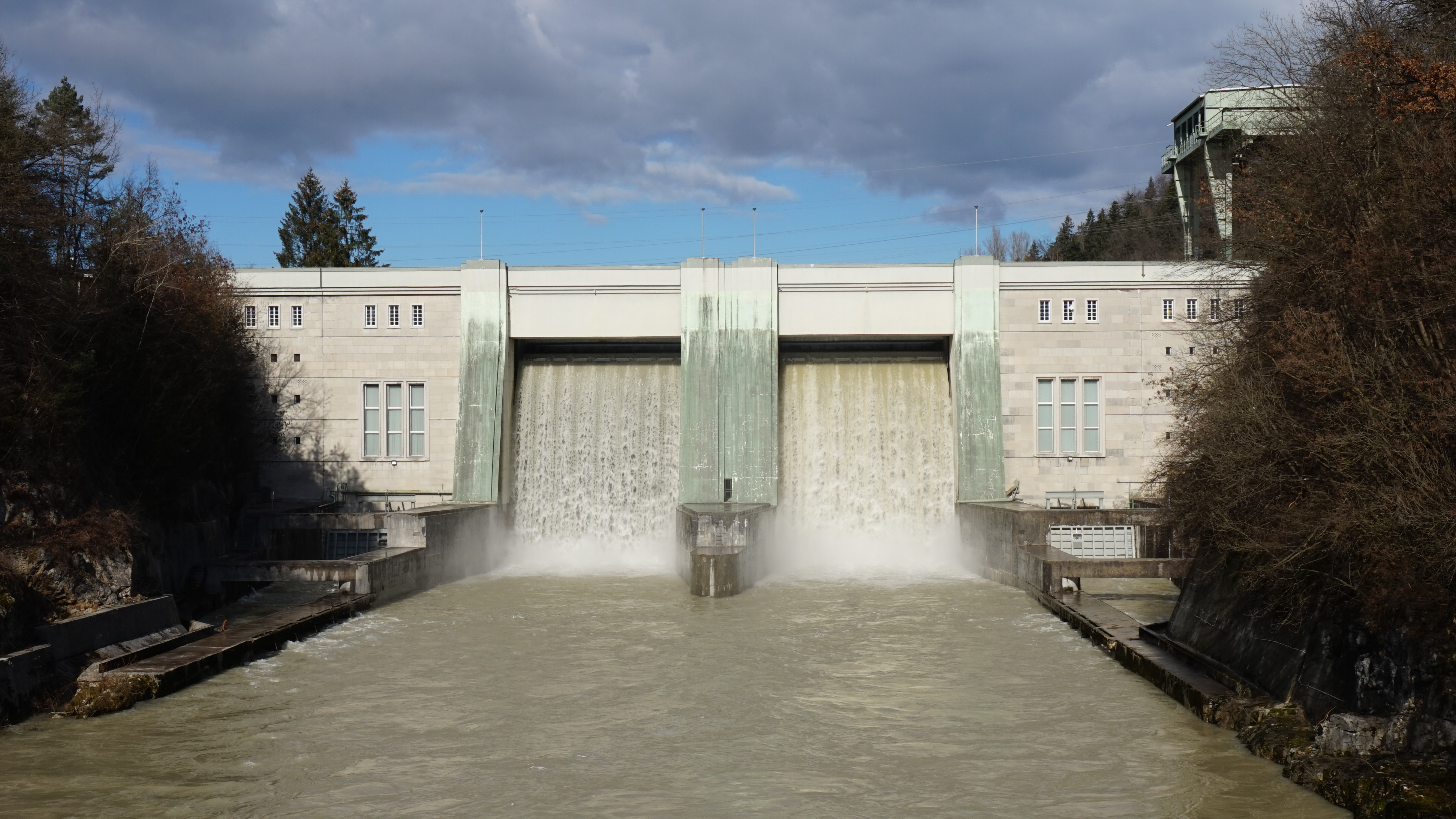 Medvode hydroelectric power plant on Sava river, Slovenia